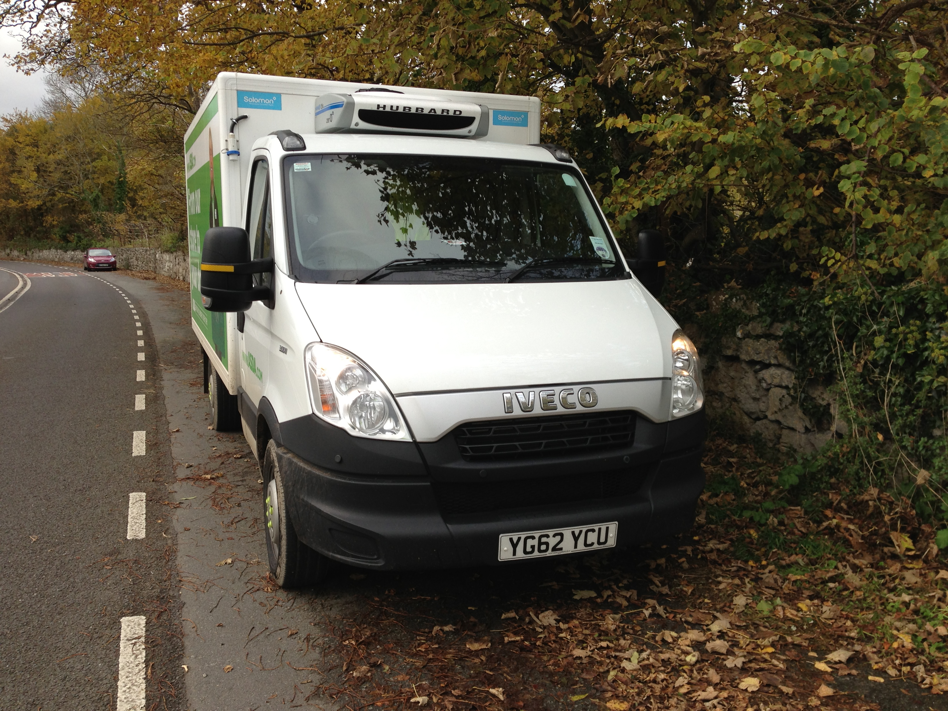 Photo of an Asda Iveco Daily Delivery Van